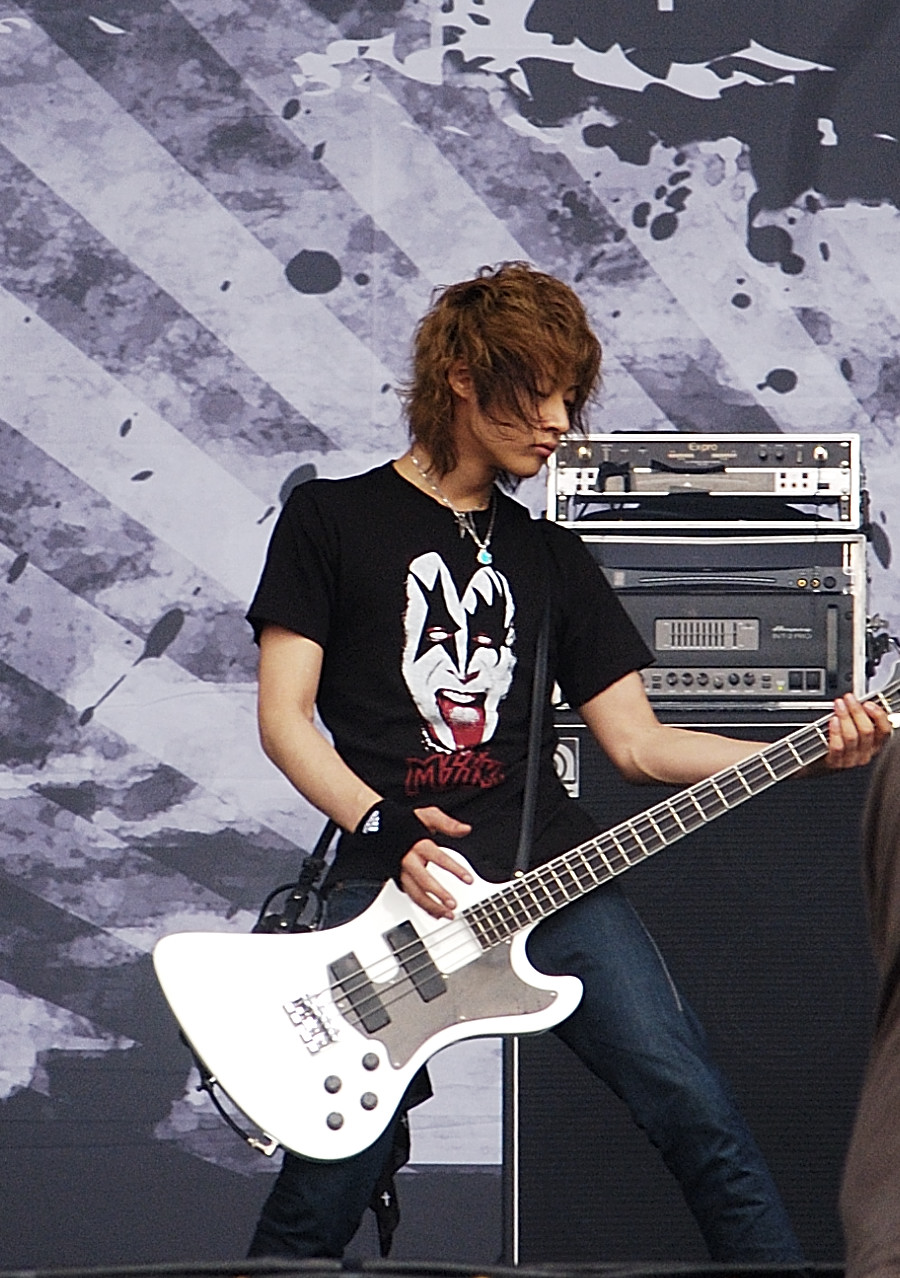 Toshiya of Dir en grey, live at Rock im Park 2006. Ampeg SVT-2Pro (300W)